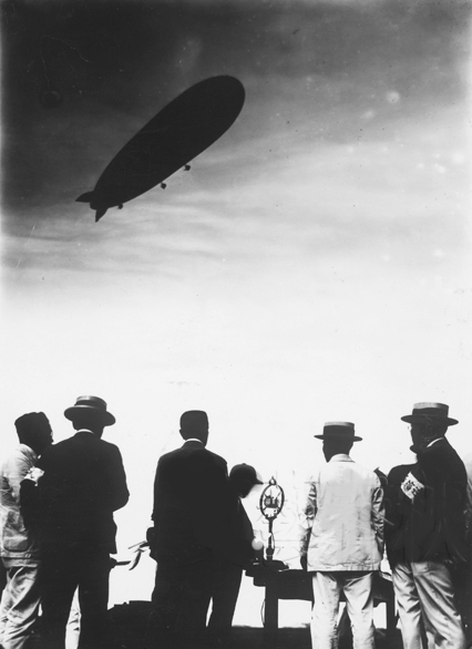 LZ 127 arriving in Kasumigaura Air Force Base, Japan, during its world trour.